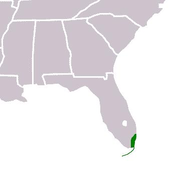 A range map showing the distribution of the Atala (Eumaeus atala).